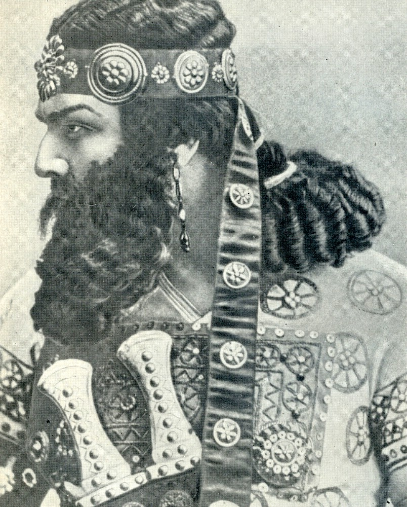 Russian bass, Feodor Chaliapin (1873 - 1938)